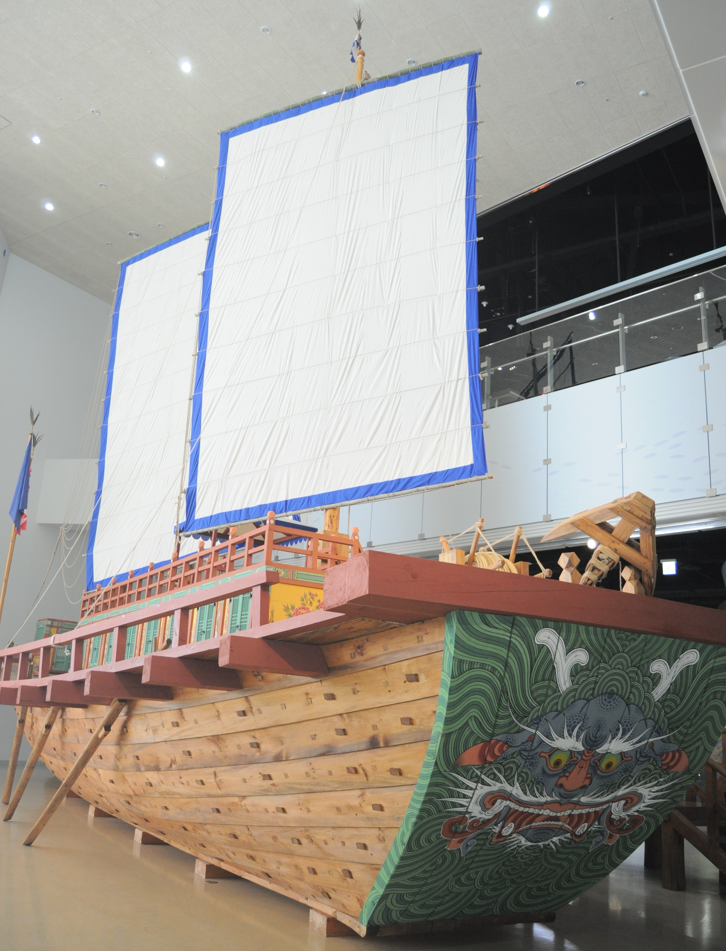 Reproducted Diplomatic Ship for the Joseon Envoy to Japan Reproduction : 17.4m in length, 15.22m in register length, 4.84m in width, and 1.57m in molded depth After the end of the Imjin Waeran(Japanese invasions), the Joseon dynasty sent envoys to Japan. The object shown here in a half-size replica of the diplomatic ship the Joseon dynasty built to send its envoys to Japan. The reproduction is based on several important historical records of the last envoys Joseon sent to Japan in 1811 when the dynasty was ruled by King Sunjo.